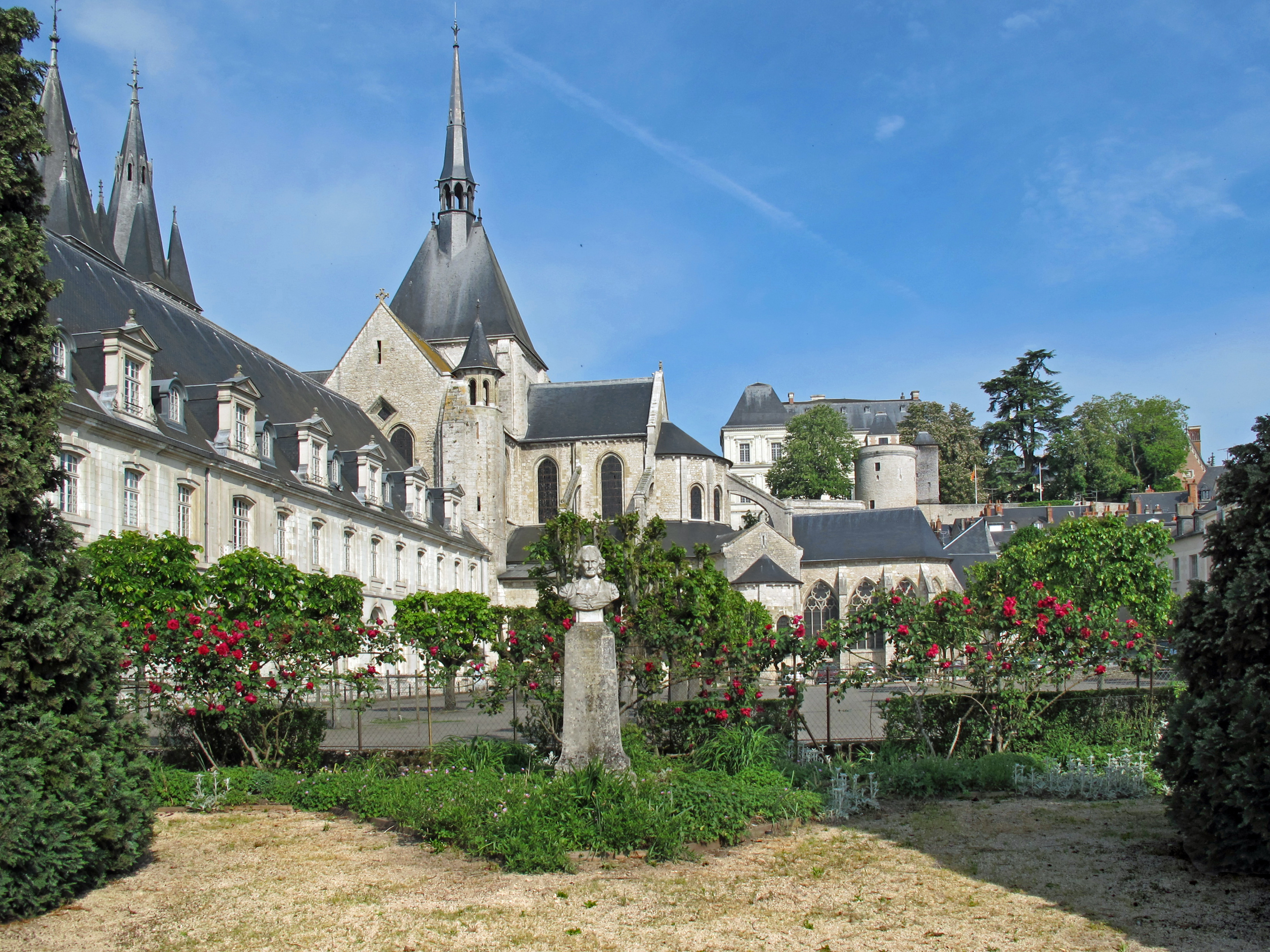 Bust of Henri Grégoire in a garden of Blois (Loir-et-Cher, France). in the background one can see Sant-Nicolas-Saint-Omer church on the left and on the right, the castle.